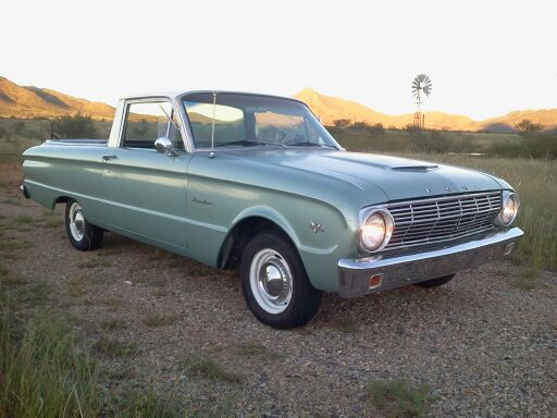 Classic 1963 Ford Falcon Ranchero restored by Dan Deppen